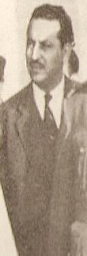 Wanis al Qaddafi, Libyan prime minister (1968-69).